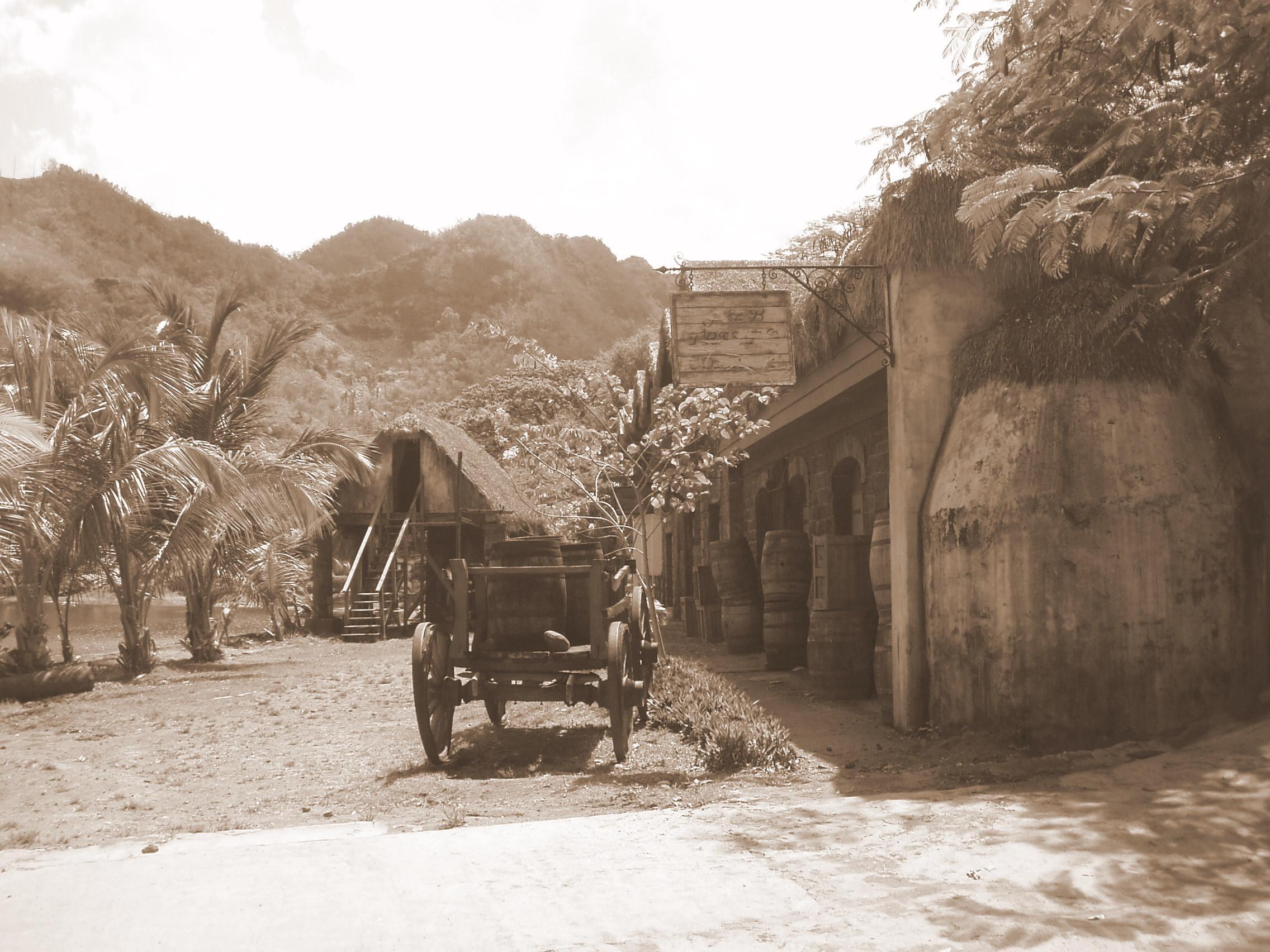 This is a photo of main street Oracabessa, Jamaica. The photo was taken in July 1861, by William Hennings, who died more than 100 years ago.